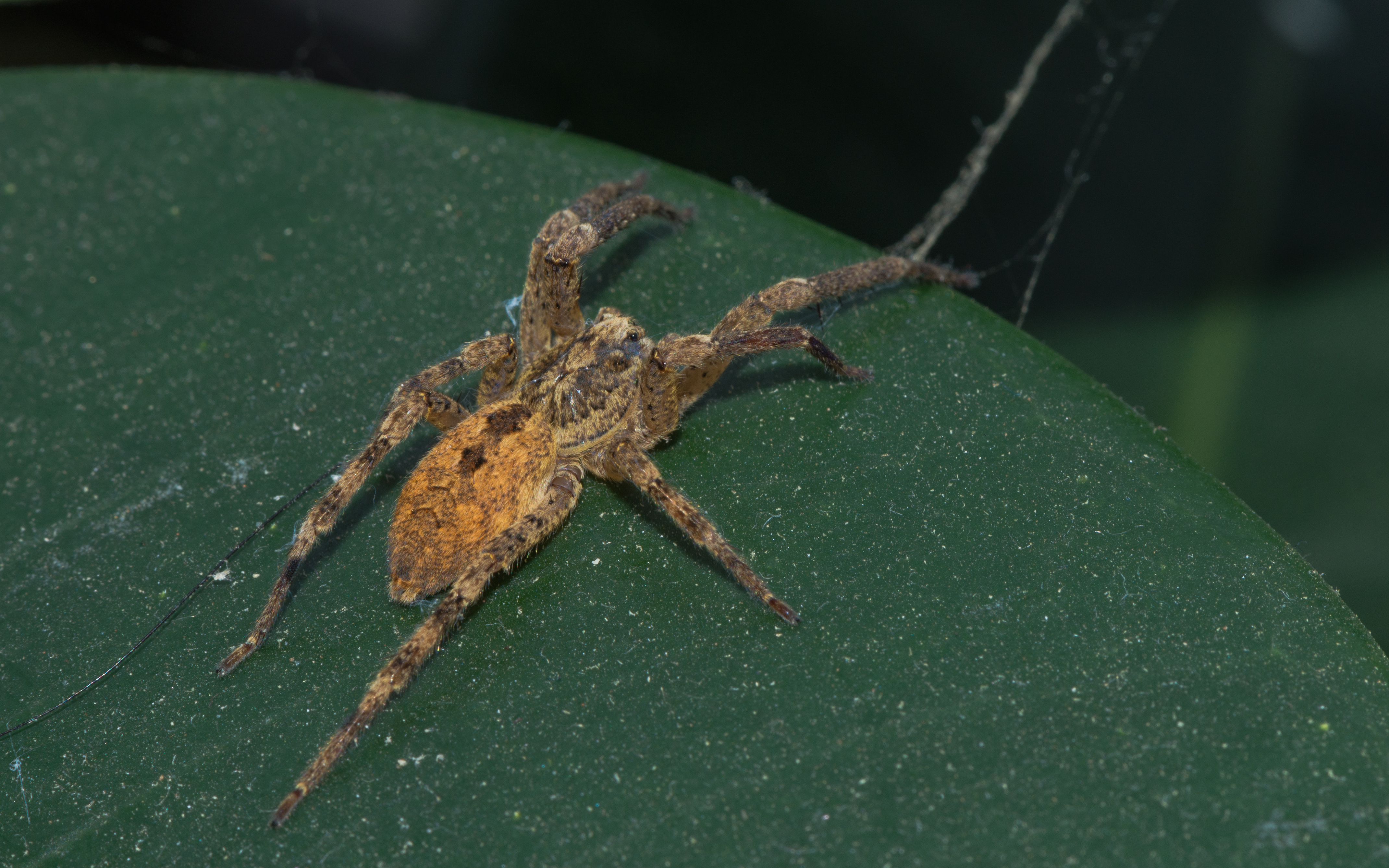 Zoropsis spinimana.